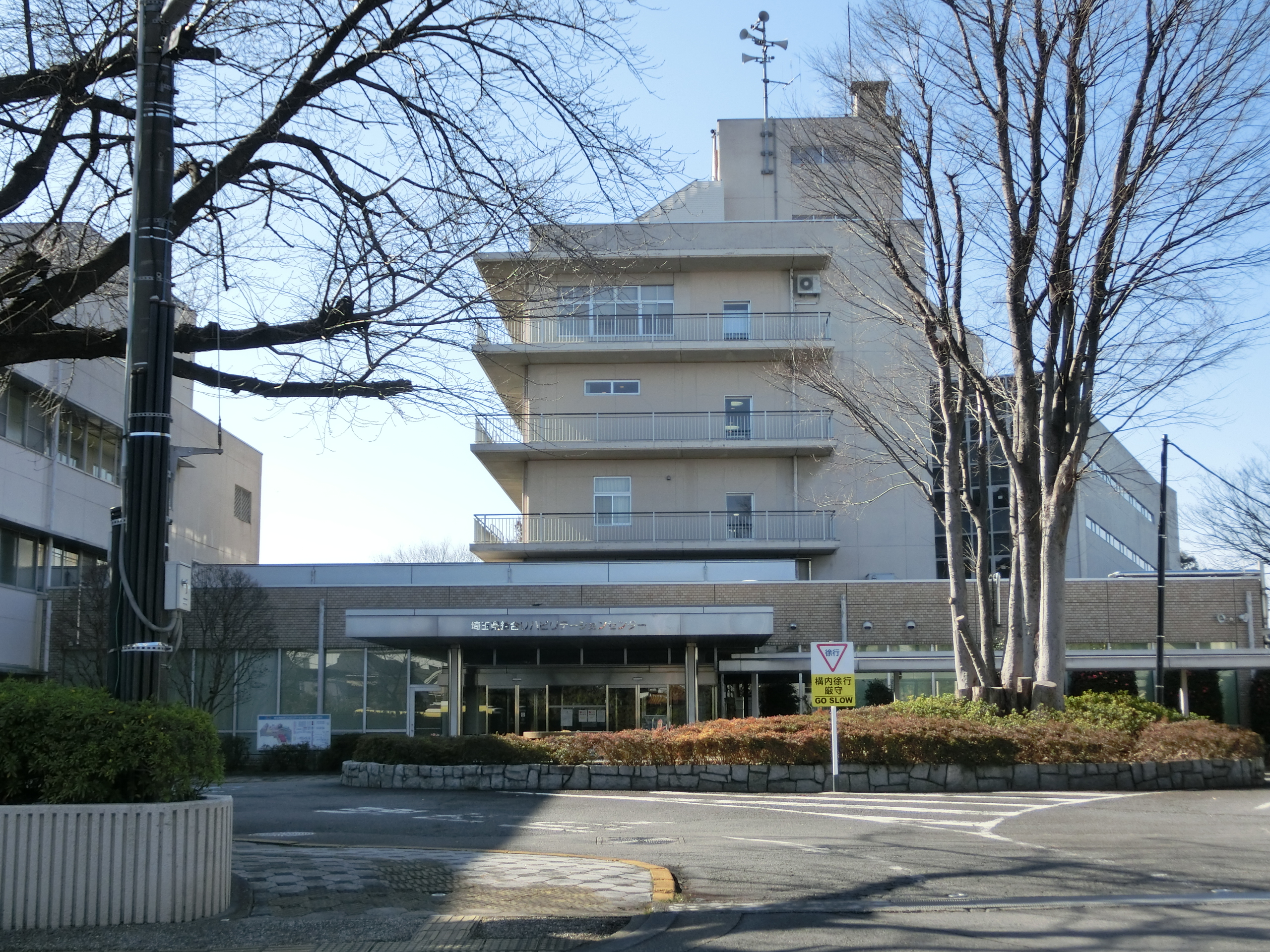 Saitama Rehabilitation Center